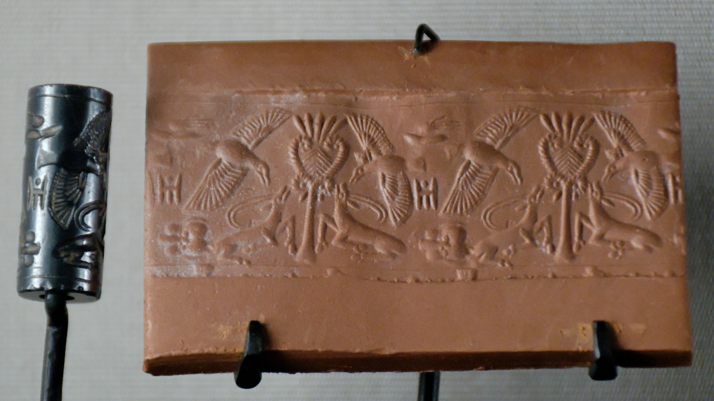 Provenance: Sinda, Cyprus